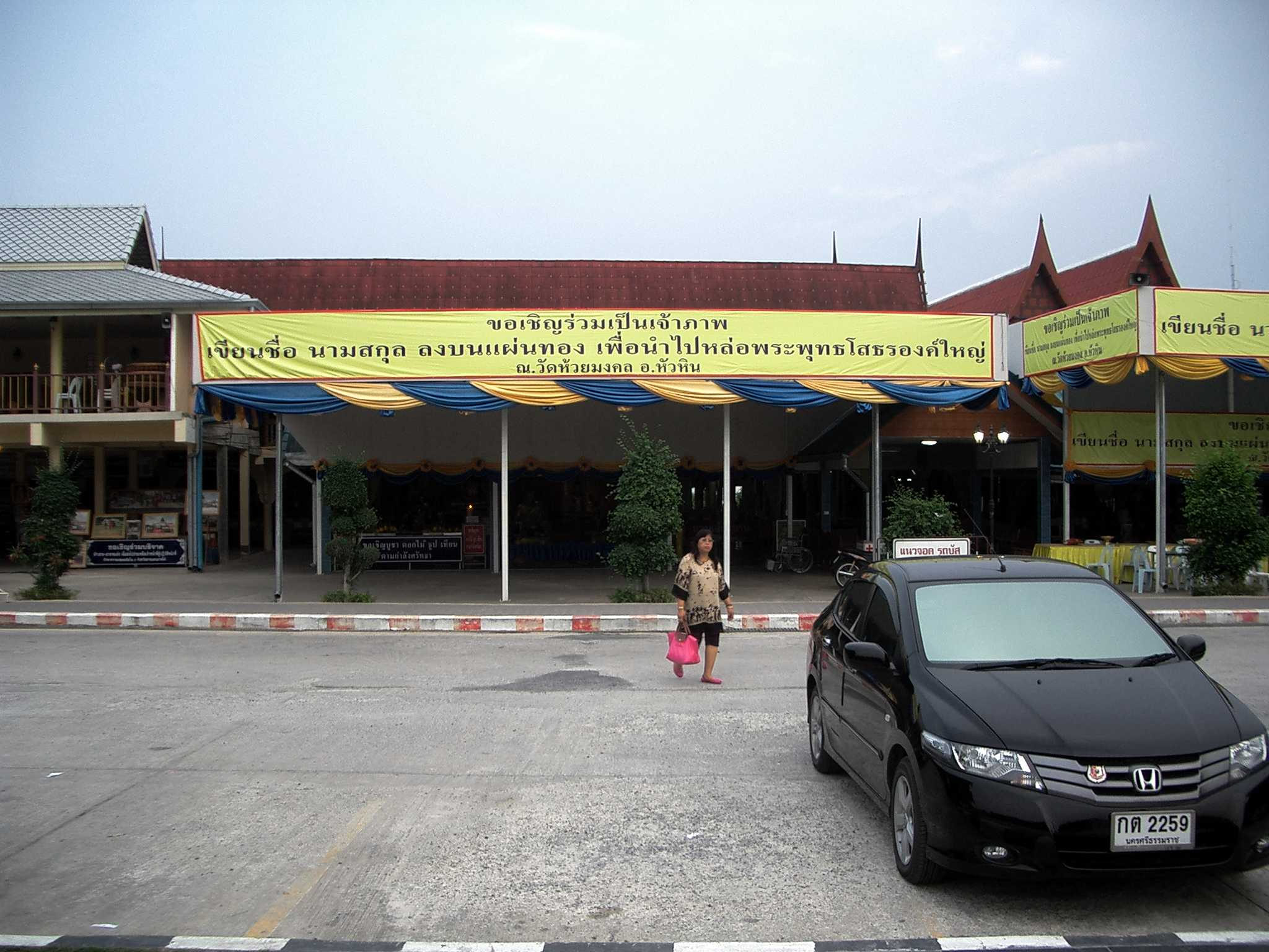 Wat Huai Mongkhon, Prachuap Khiri Khan Province, Thailand